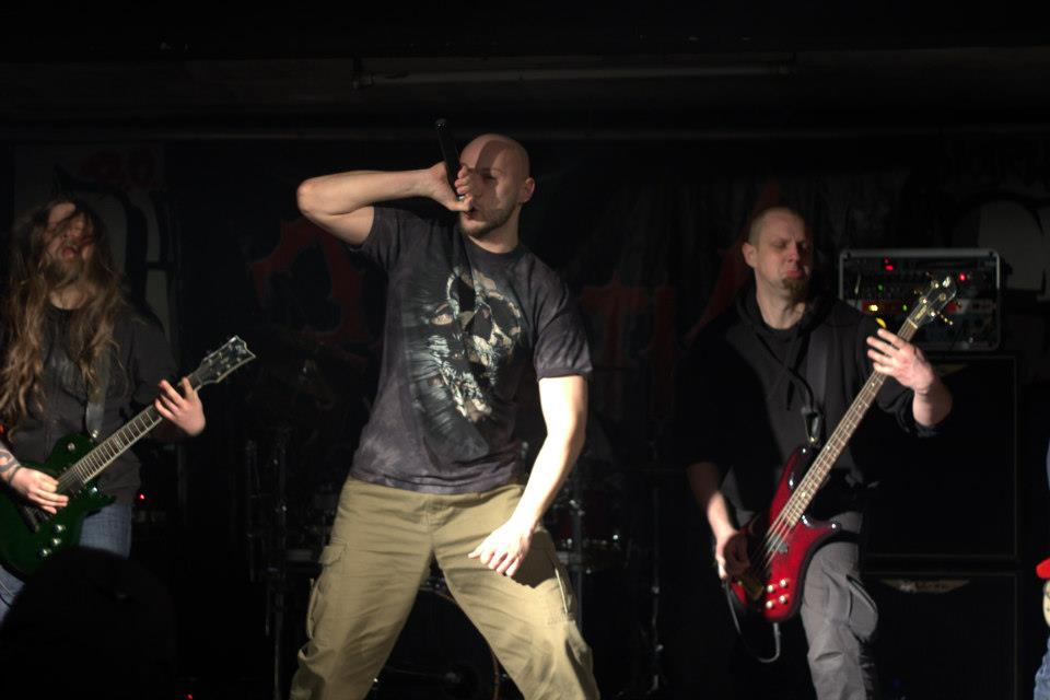 Empatic, Polish death/thrash metal band, live in Białystok 2013